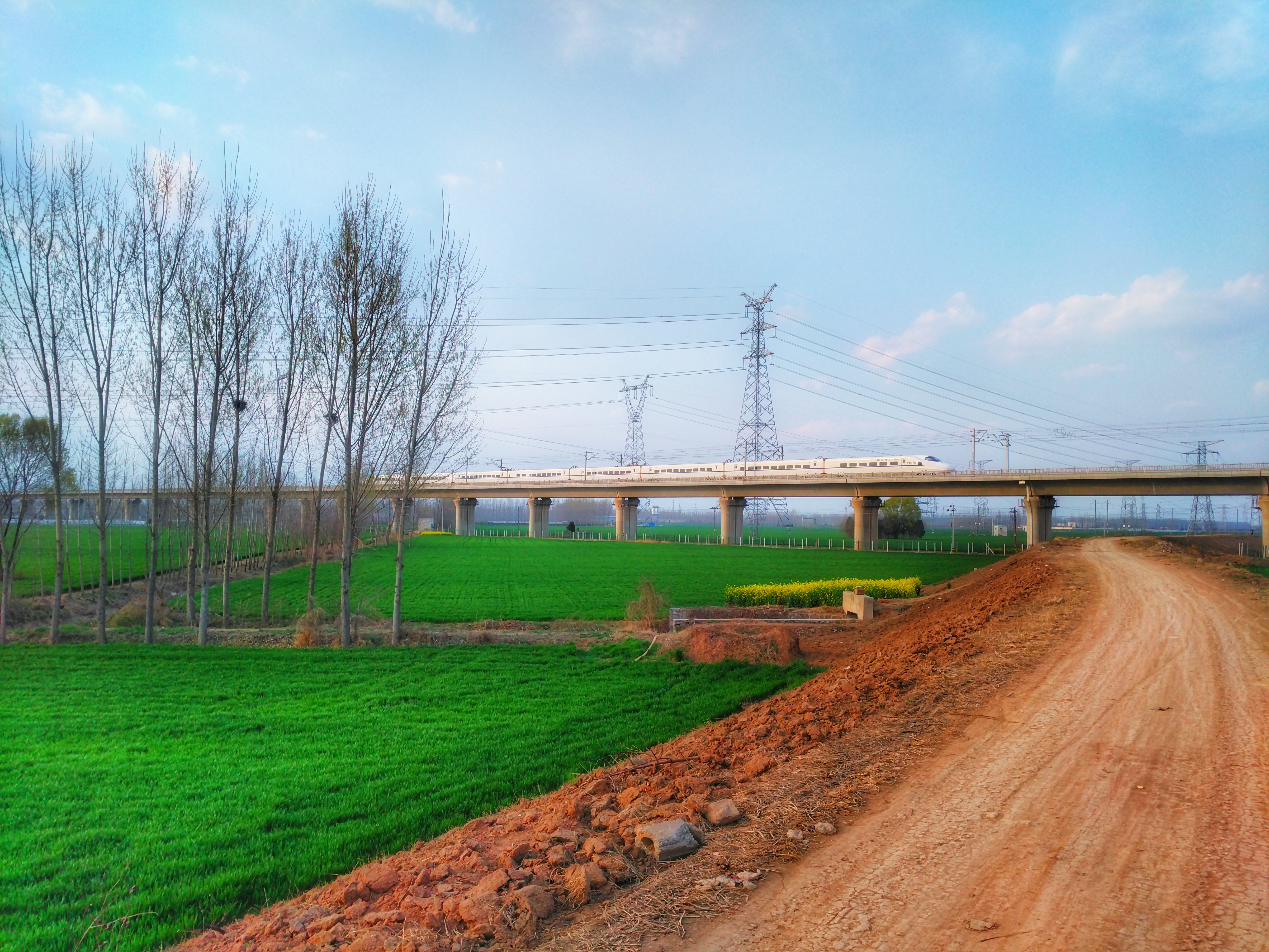 CRH2As are common to be seen on the 3 intercity railways in Henan. There are also some CRH380As and CRH380Bs to be operated on a few certain trains, and used to be a CRH2E but later given to Guangzhou Railway Group.